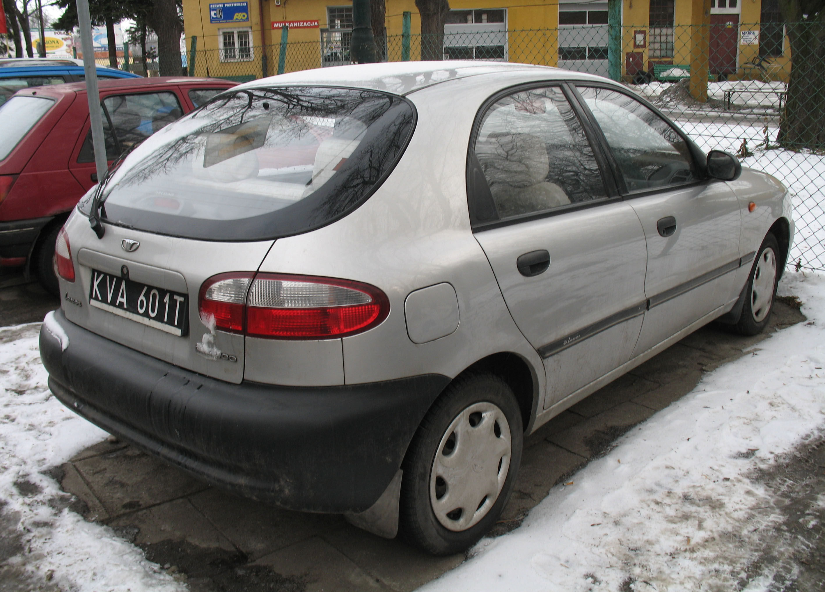 Silver Daewoo Lanos car in Kraków, Poland.